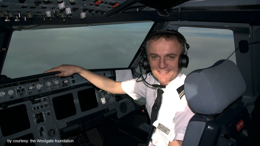 Richard Mark Westgate († 12.12.2012) former British Airways pilot. Picture by courtesy of the Westgate foundation from the documentary film „Unfiltered Breathed In - The Truth about Aerotoxic Syndrome“